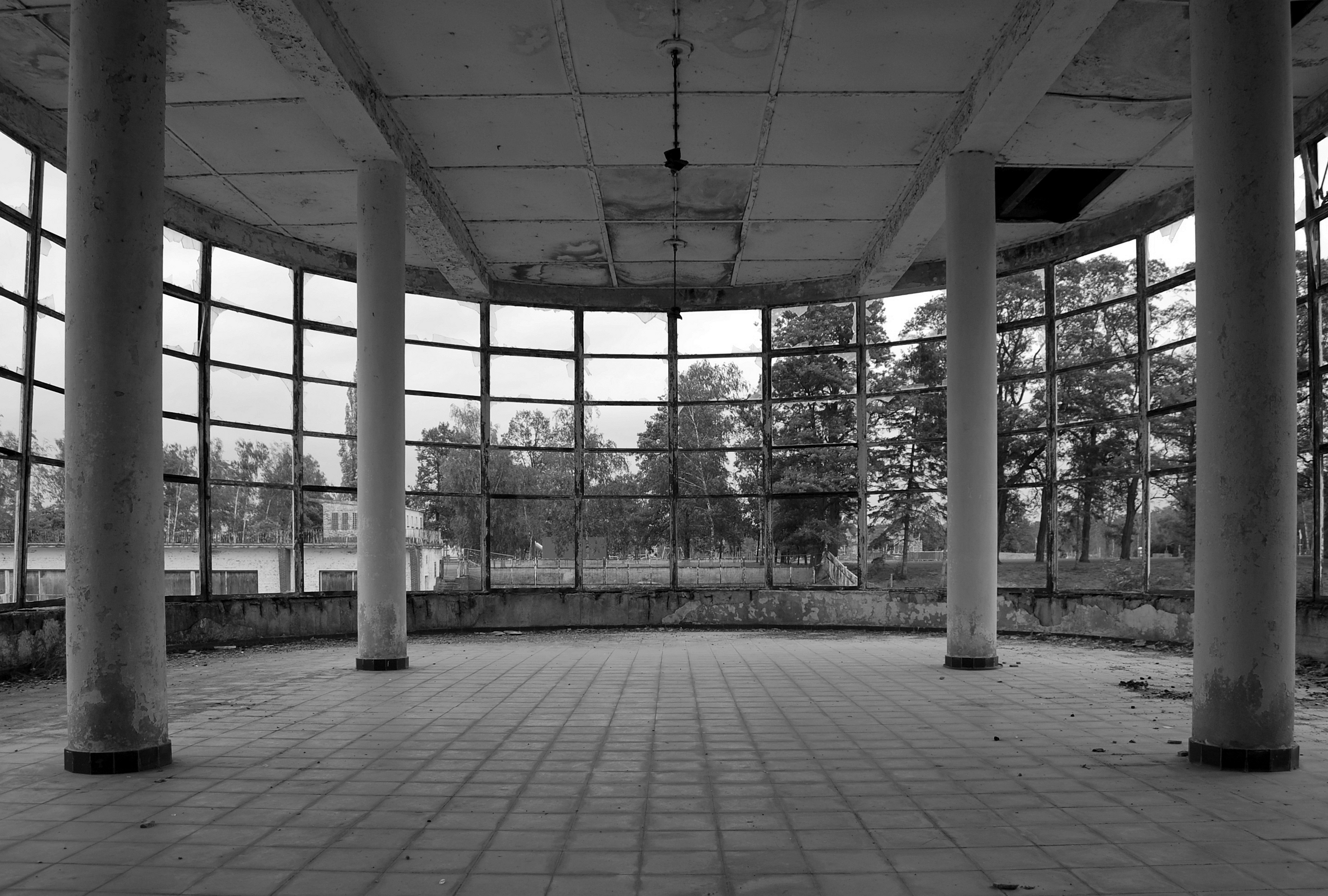 A part of the swimmingpool in Hofstade.